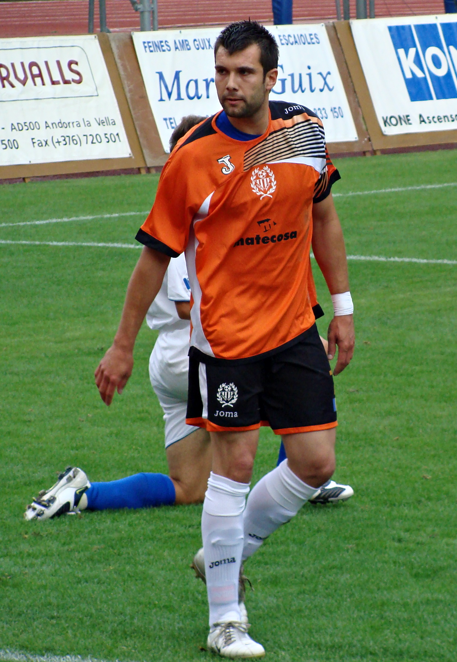 Victor Moreira, Andorran footballer, during the game for UE Sant Julià